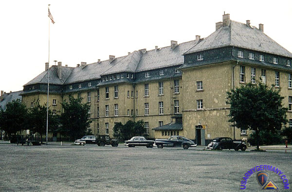 Ray Barracks in Friedberg / Germany (Home of the 32nd Tank Battalion US Army) (Former Wartturm-Kaserne)